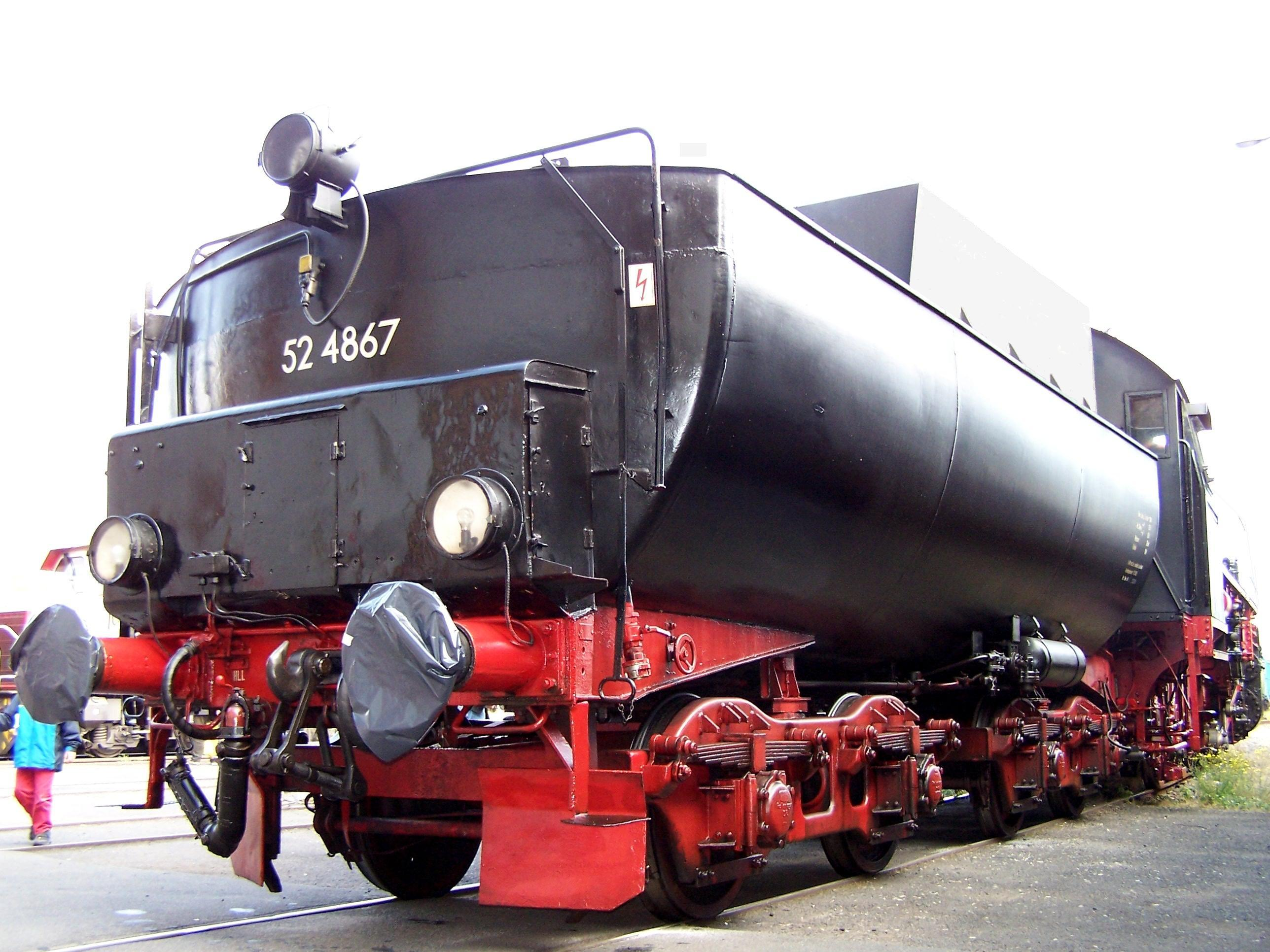 tub style tender of steam locomotive 52 4867 of the Historische Eisenbahn Frankfurt in Frankfurt am Main on the Hafenbahn ground.